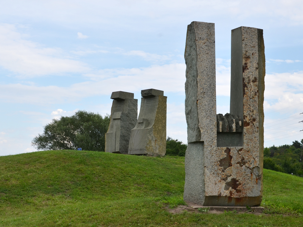 Family (1998), sculpture by Jan Koblasa near Mikulov